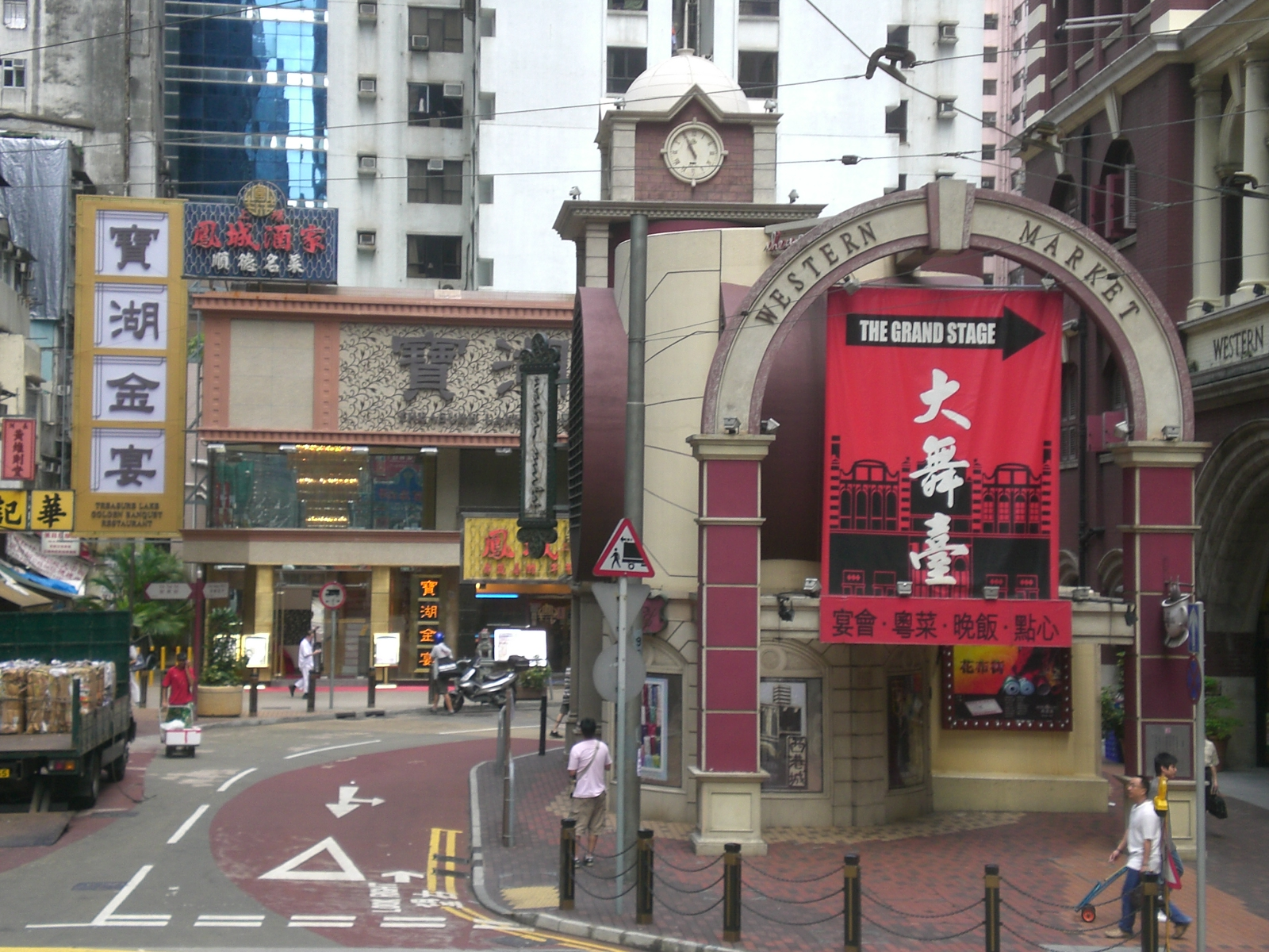 上環zh:德輔道中zh:西港城